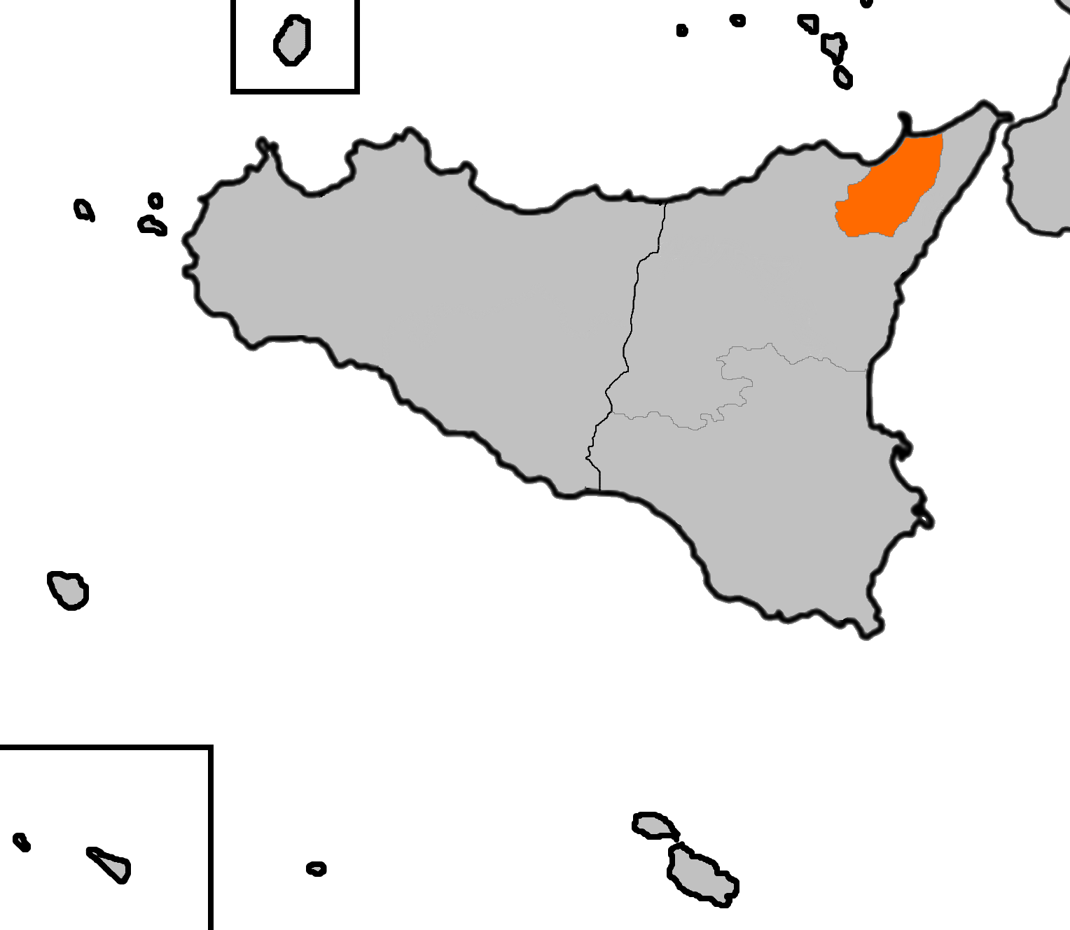 Localisation map of the Vallo di Milazzo between 1217 to 1282.